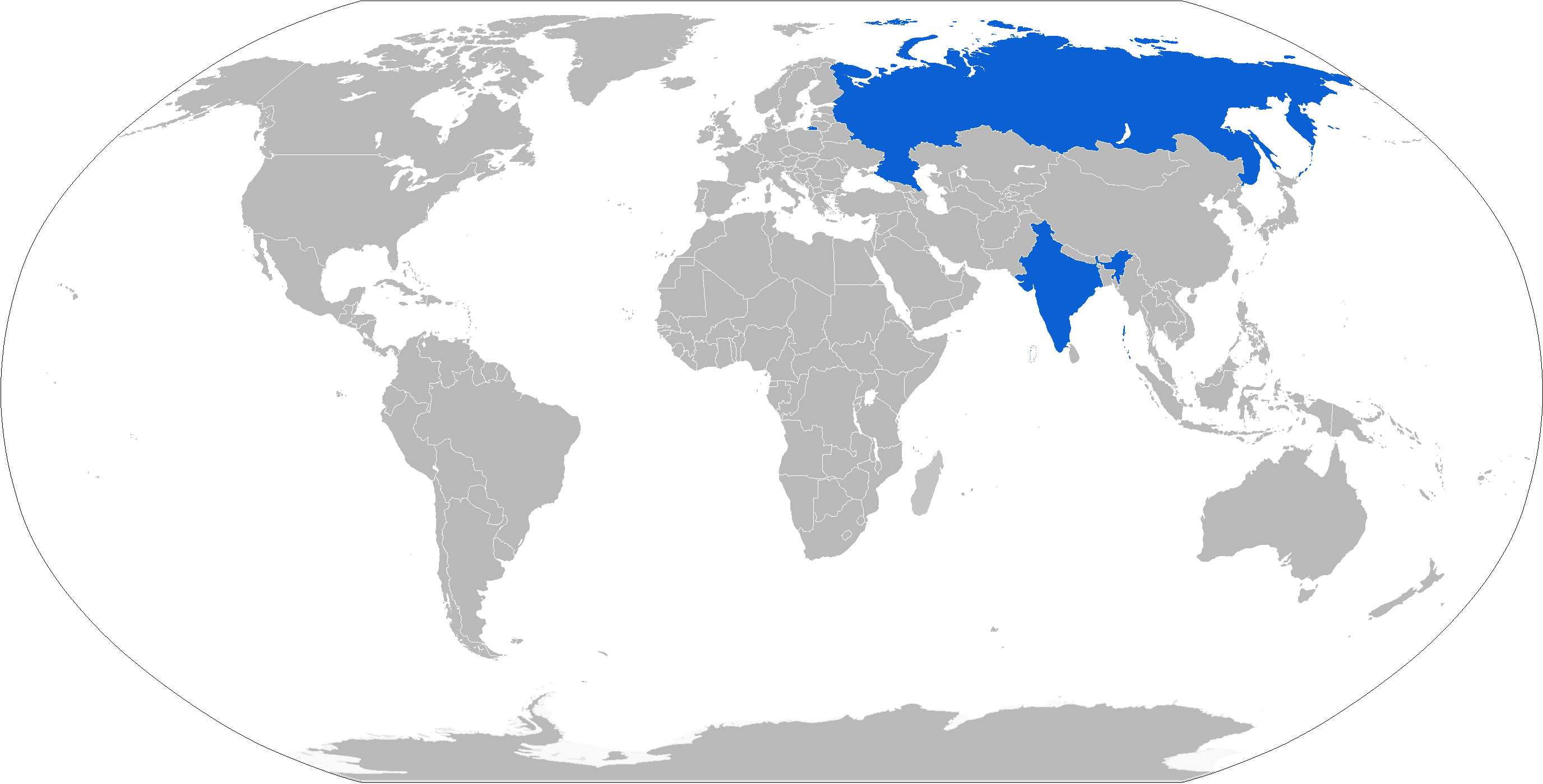 Map with BrahMos operators in blue